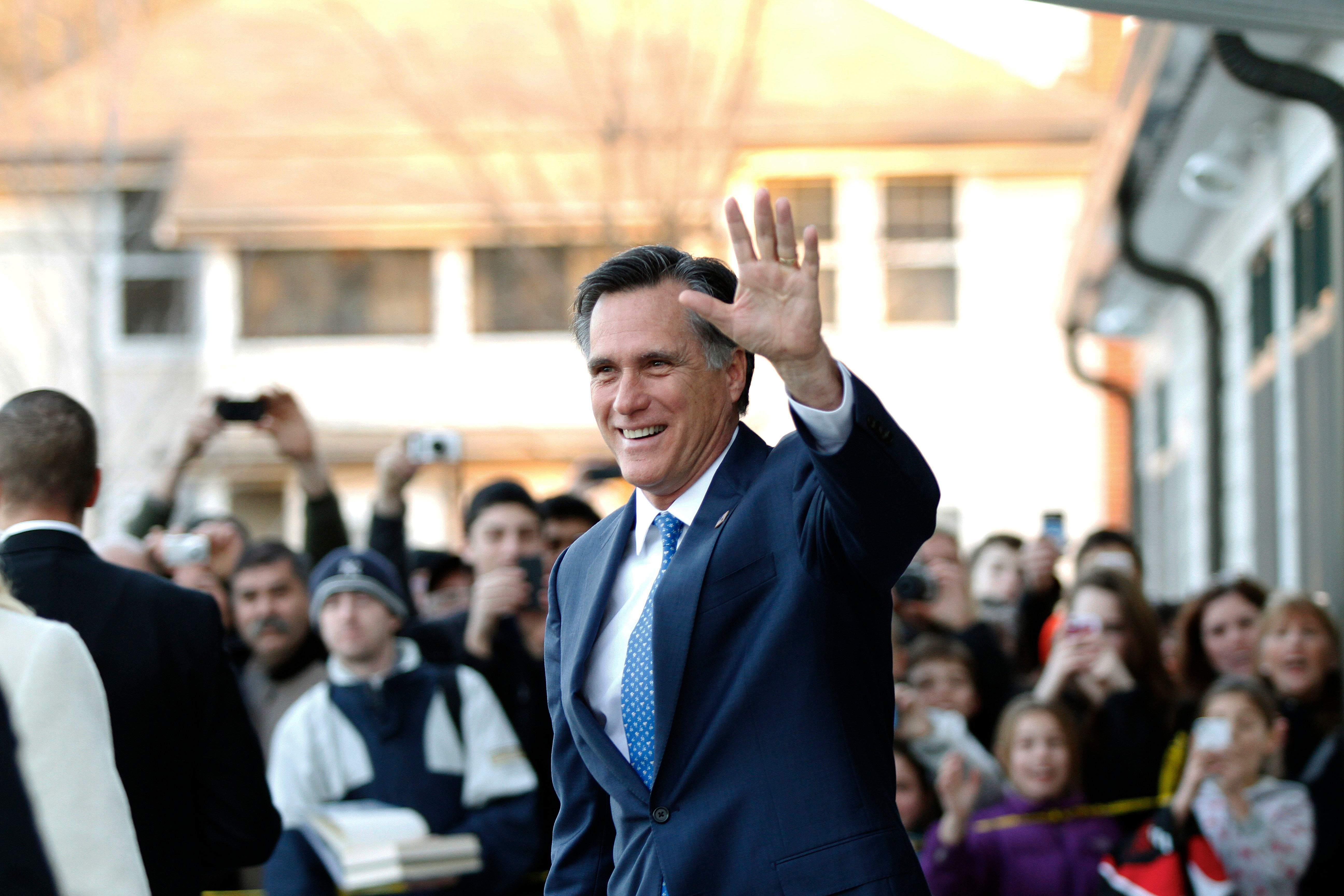 Mitt Romney voting in Belmont, MA, USA, March 2012